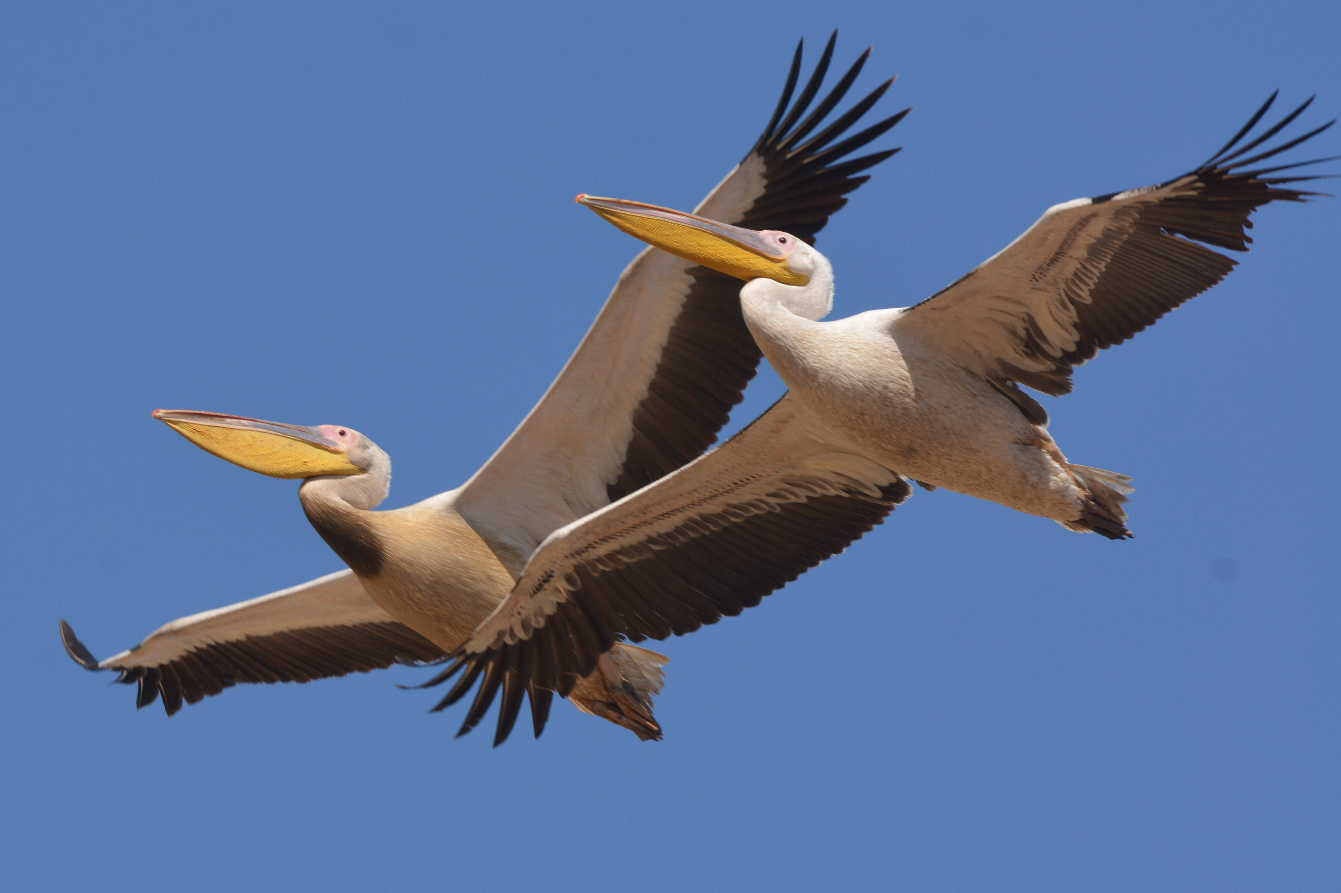 Picture taken on the banks of the Chobe river, in Botswana, in August 2019.